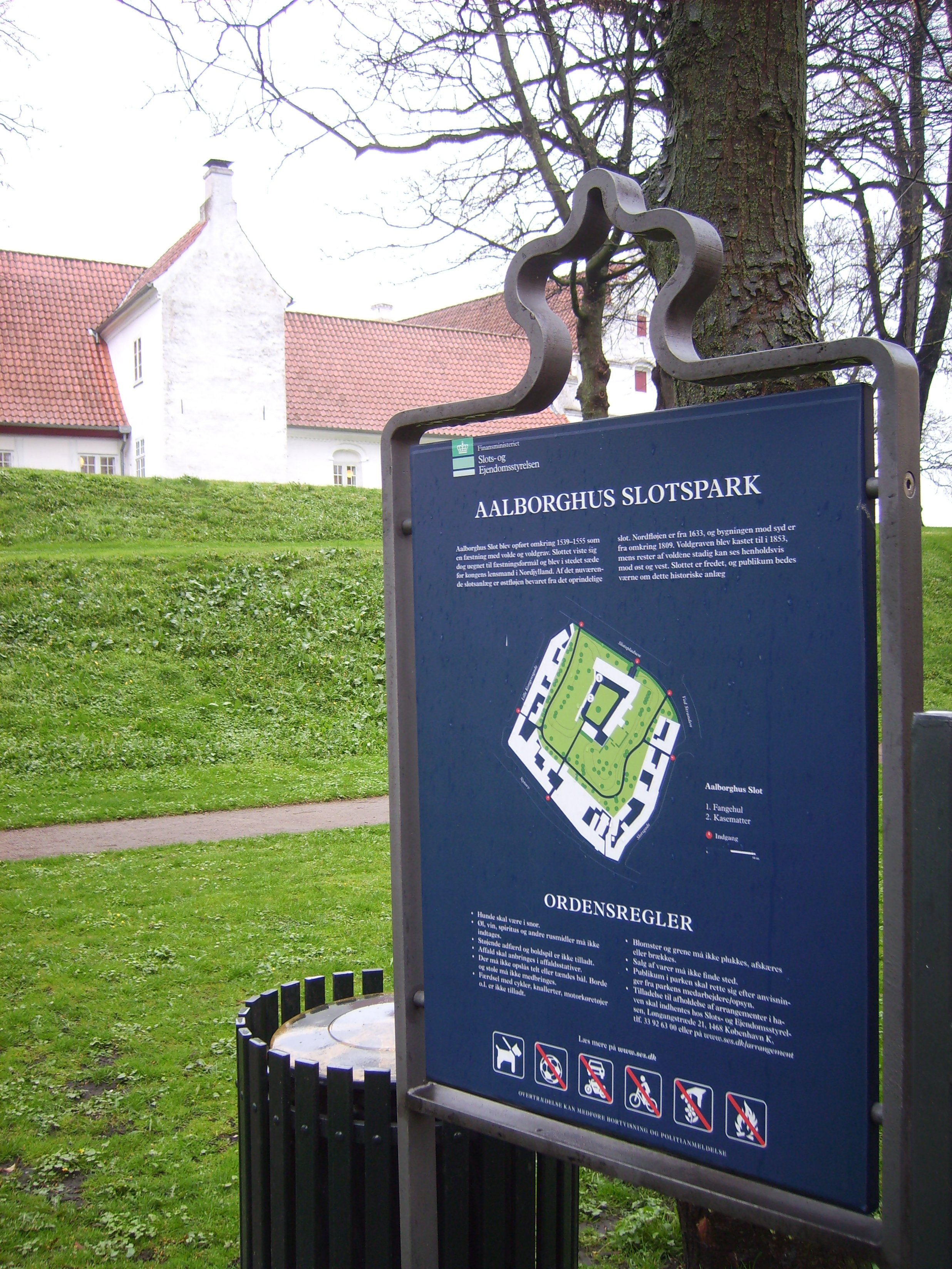 The castle Aalborghus or Aalborghus Slot in Aalborg, Denmark is built 1539-1555.